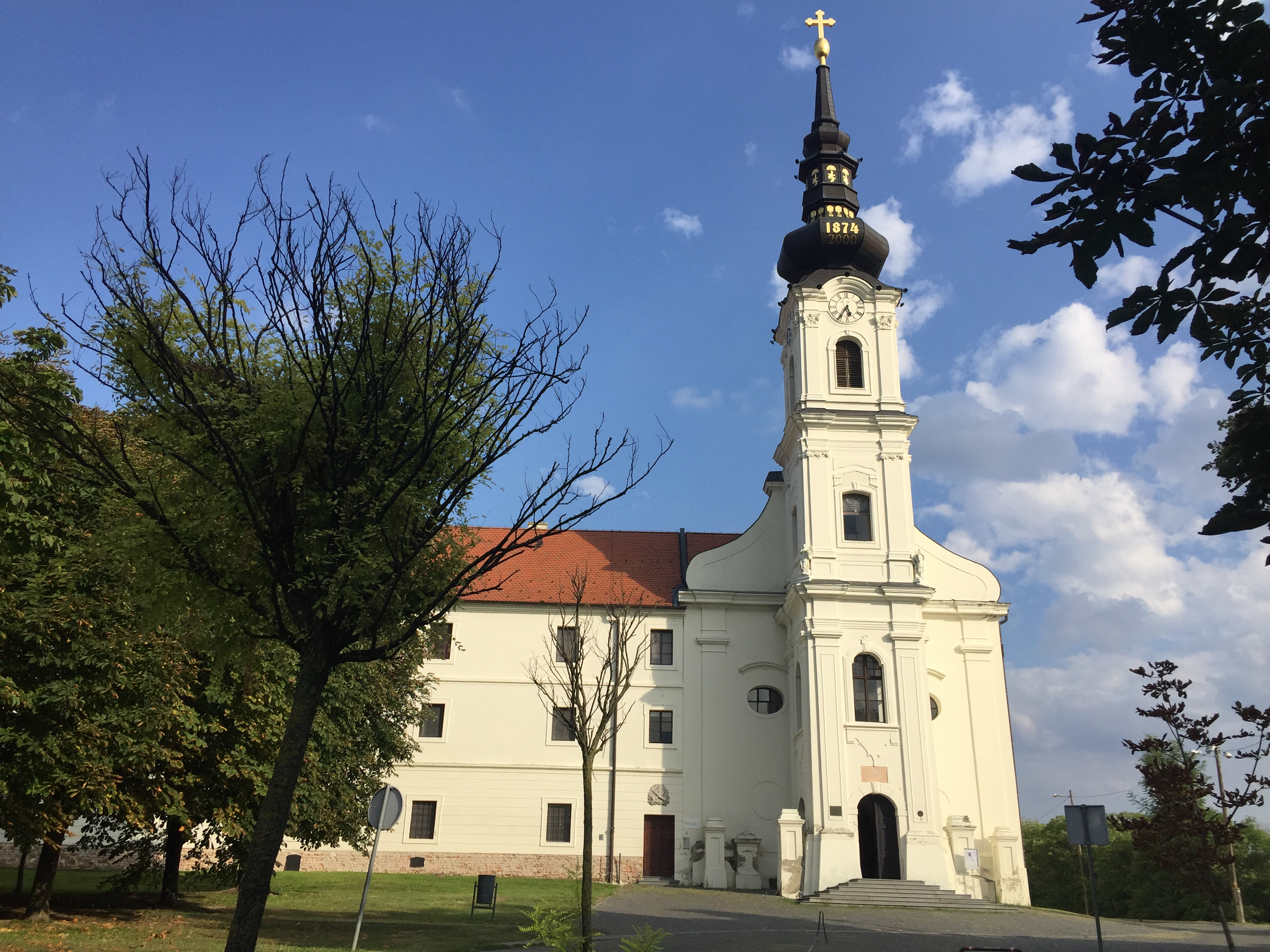 Church of St. Philip and Jacob in Vukovar, Croatia